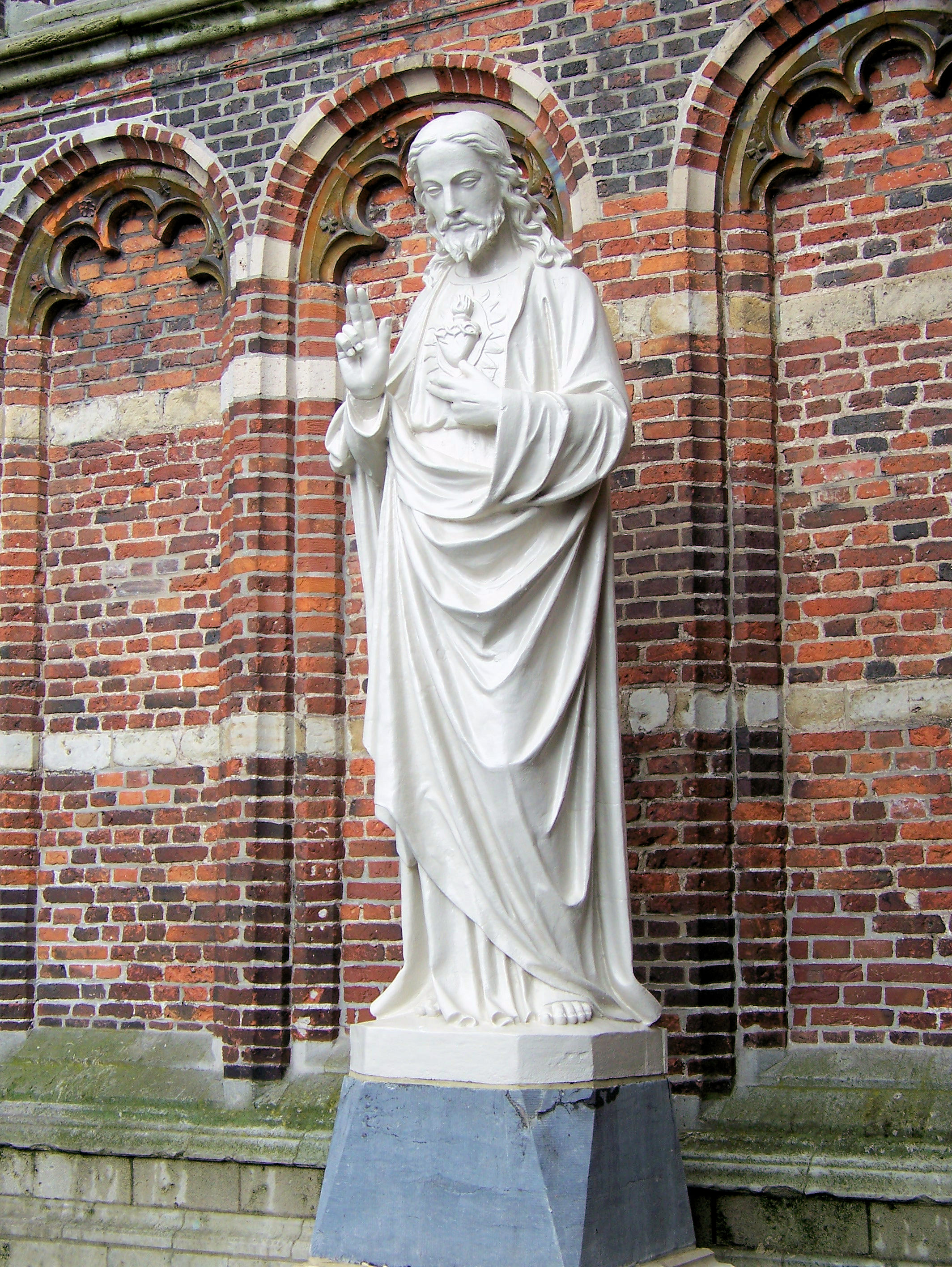 "Holy Heart", by unknown sculptor. In Oosterhout, North Brabant (Netherlands).